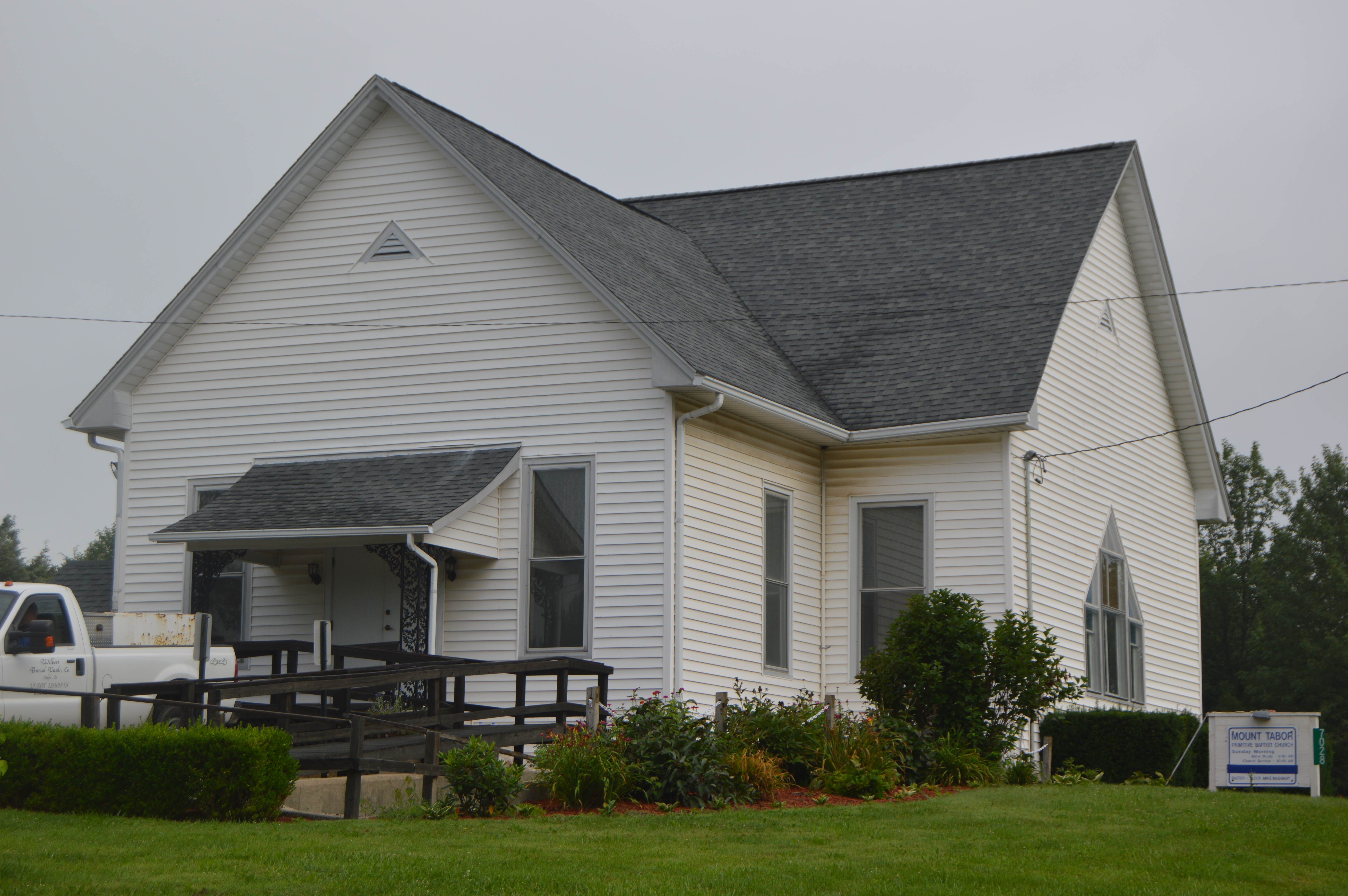 Southern side and front of Mount Tabor Primitive Baptist Church, located at 7028 State Road 267 north of Fayette in Perry Township, Boone County, Indiana, United States.